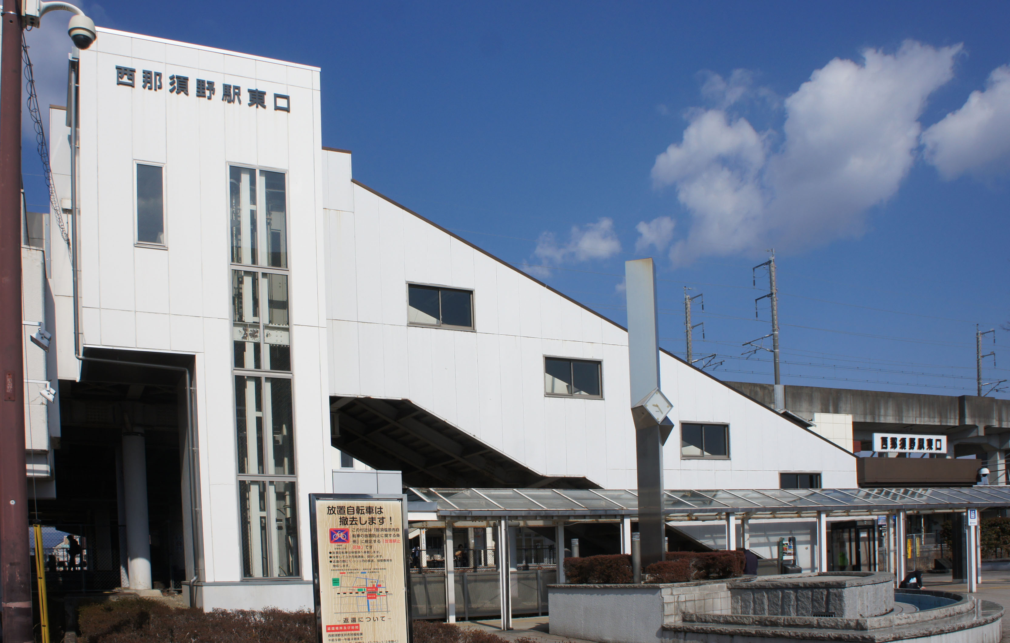 East Exit of JR Tohoku-Main-Line (Utsunomiya-Line) Nishi-Nasuno Station Sony NEX-3